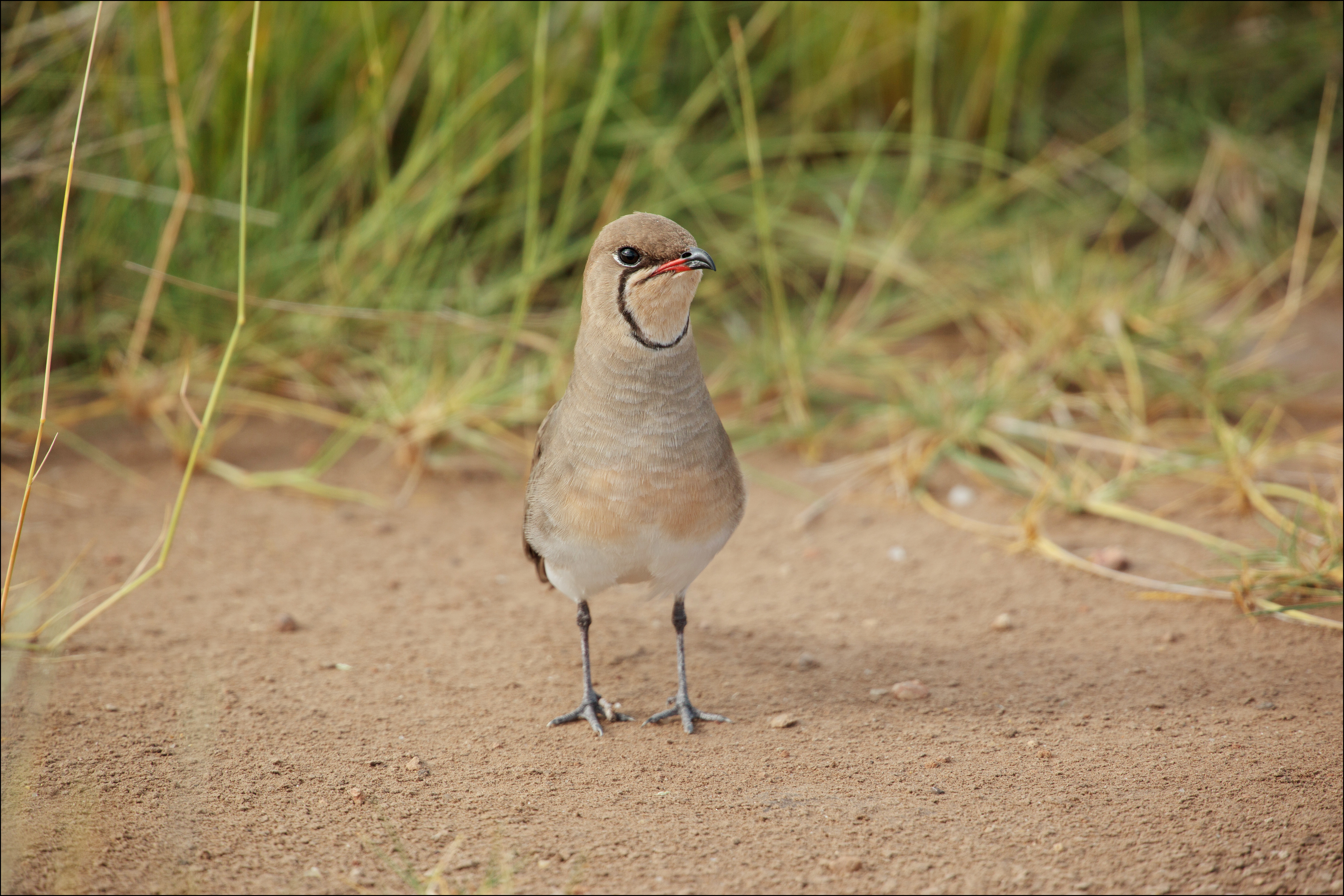 Picture of a Collared Pratincole Glareola pratincola.